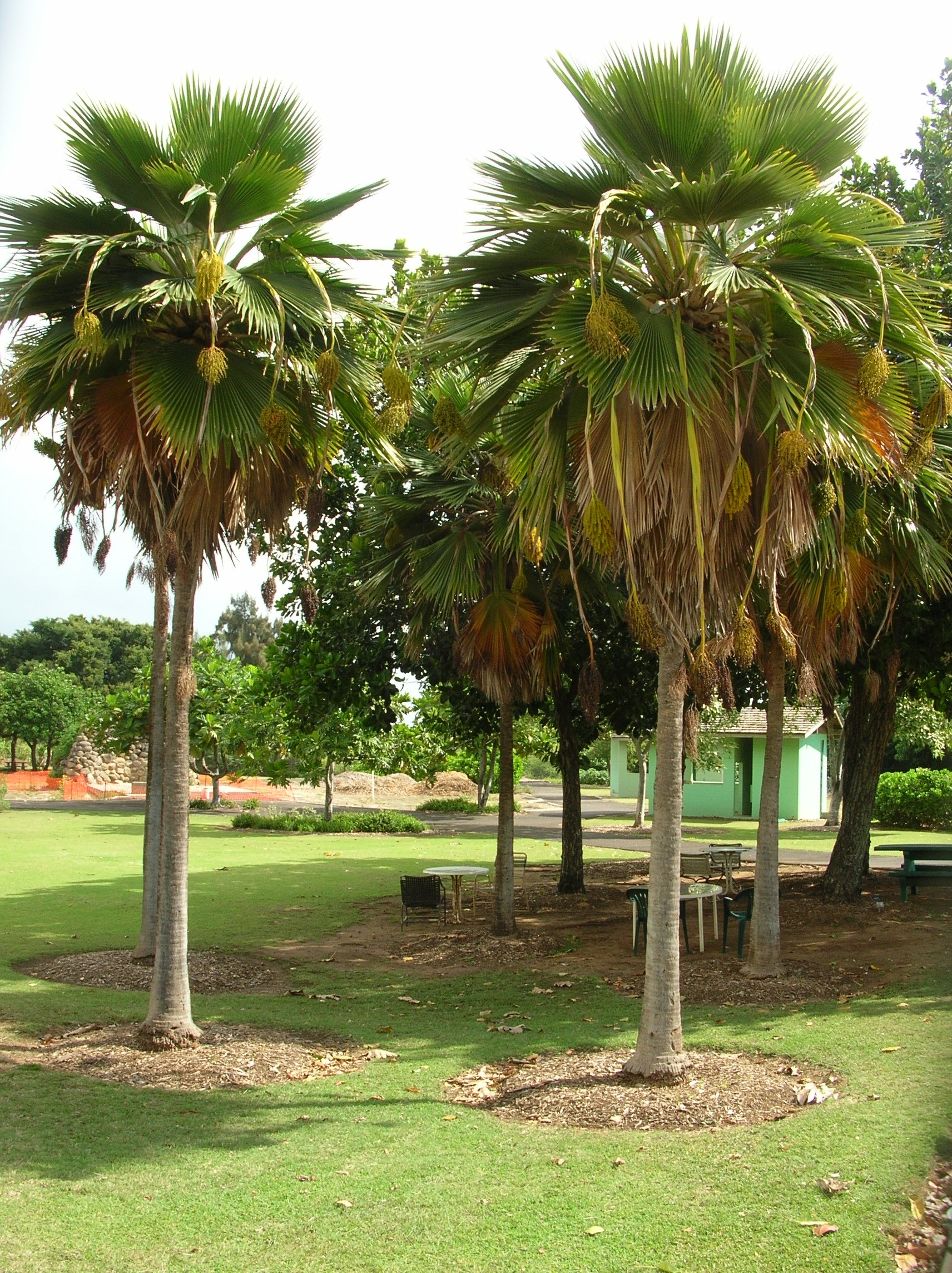 Pritchardia thurstonii (habit). Location: Maui, Maui Nui Botanical Garden